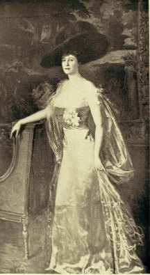 Louise Sneed Hill, wife of Crawford Hill, Representative Women of Colorado, 1914